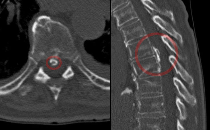 CT scan of ossification of the posterior longitudinal ligament (OPLL) in the thoracic spine. More common is cervical spine.